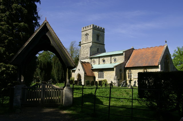 St Mary the Virgin parish church, Addington, Buckinghamshire, seen from the southeast